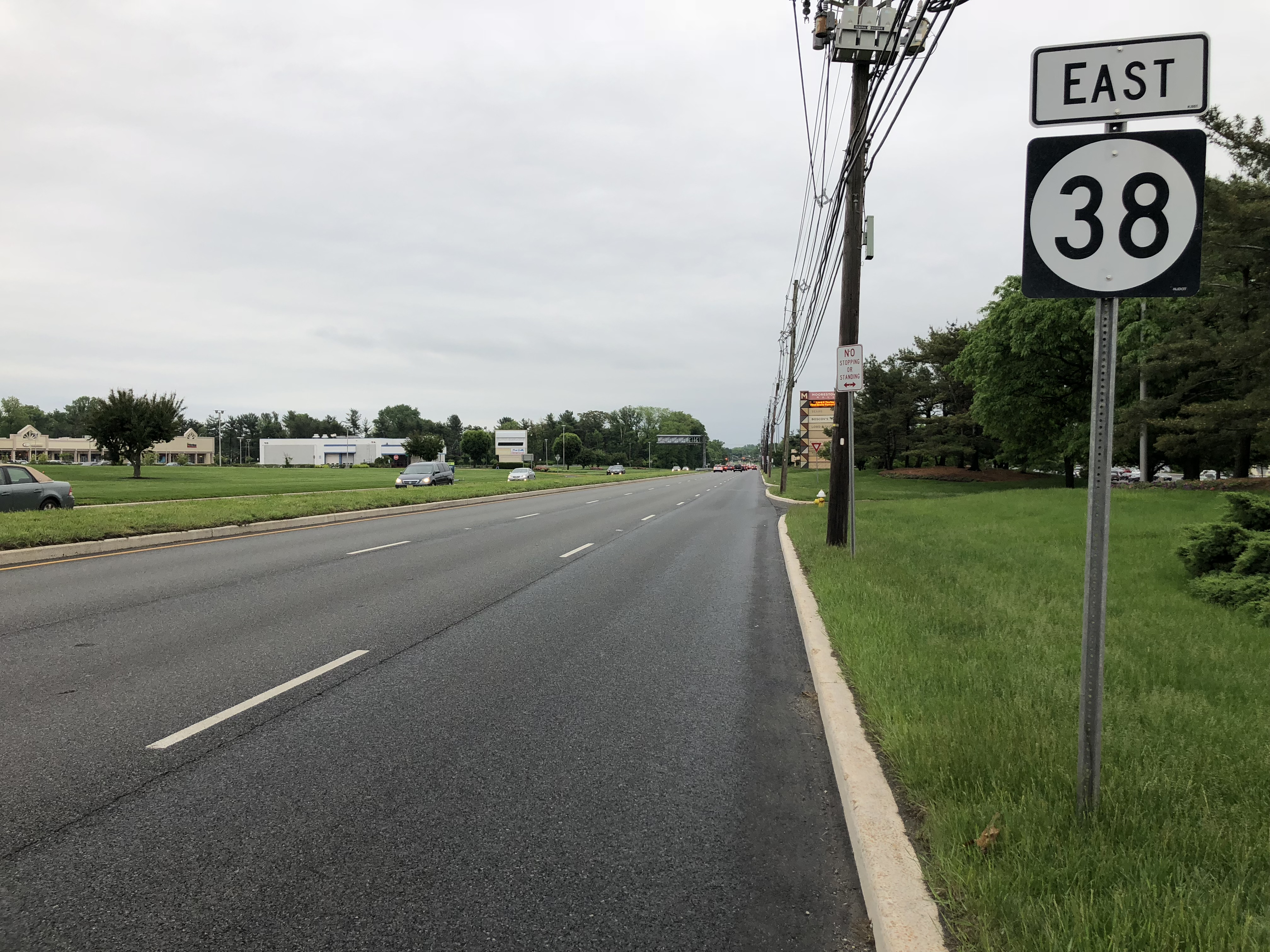 View east along New Jersey State Route 38 at Burlington County Route 608 (Lenola Road) in Moorestown Township, Burlington County, New Jersey